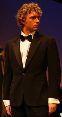 Picture of Mattias Nilsson